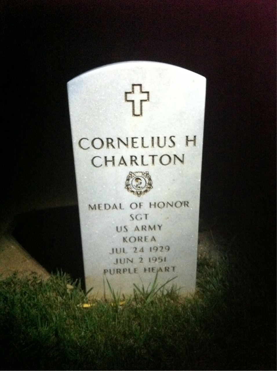 Grave of Cornelius H. Charlton at Arlington National Cemetery